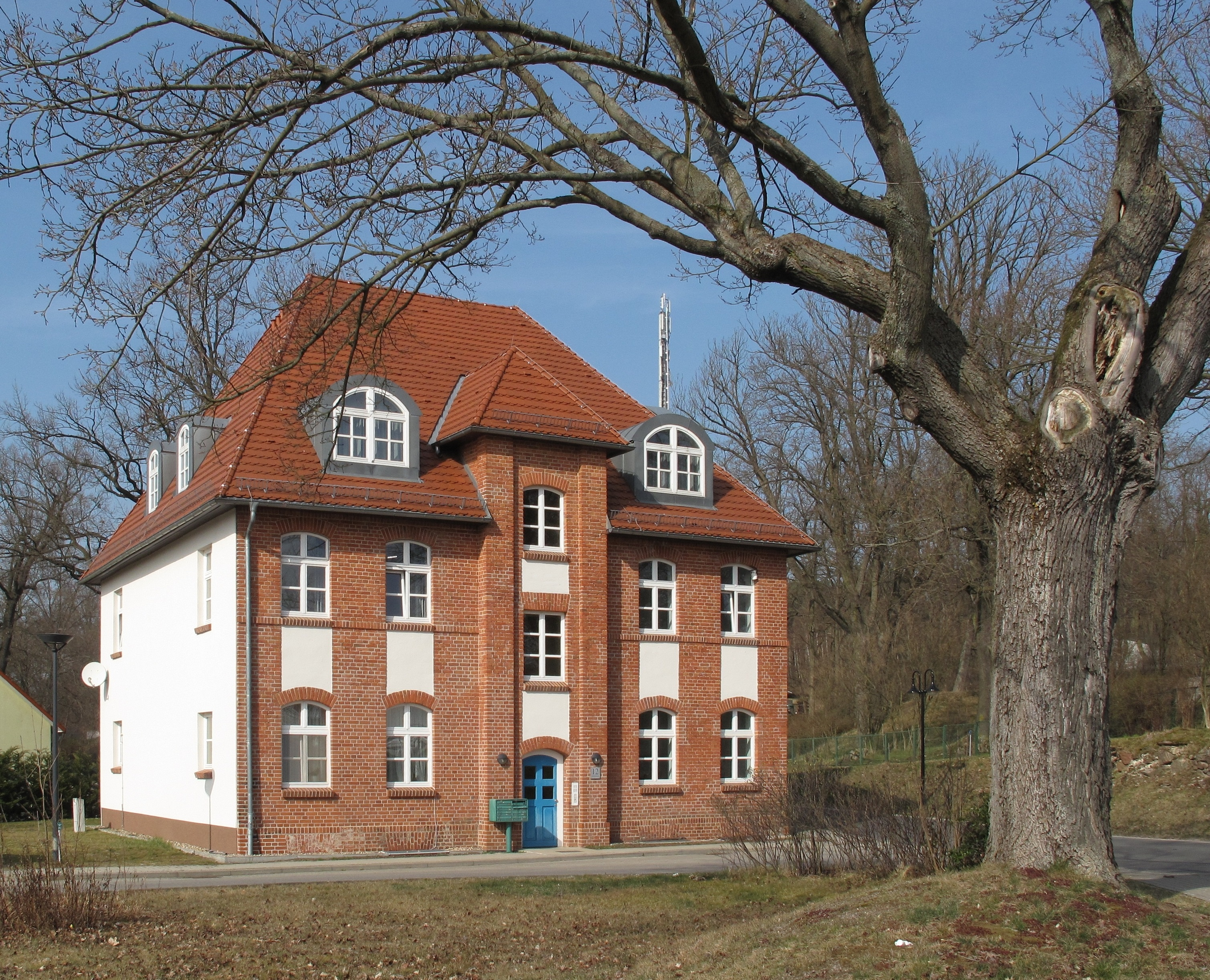 Former manor administration house in Silberberg. Silberberg is a part (settlement, estate; german: Wohnplatz) of Bad Saarow, District Oder-Spree, Brandenburg, Germany. The former manor and manor district (german: Gutsbezirk) is situated in a hilly country approximately 1,5 kilometers west of the Scharmützelsee. Silberberg was incorporated into Bad Saarow in 1928.